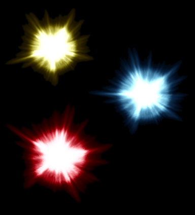 Representation of the souls from the "Tactical Soul" system used in the game Castlevania: Aria of Sorrow.